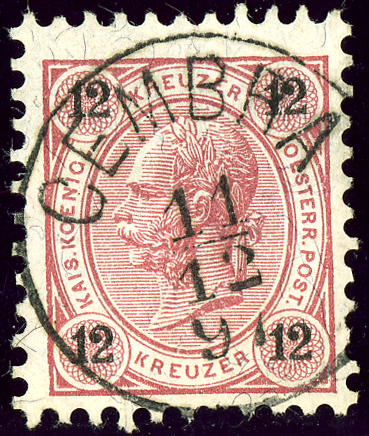 Austrian KK 12 kreuzer stamp, cancelled at CEMBRA, Trentino, Italy, in 1897.